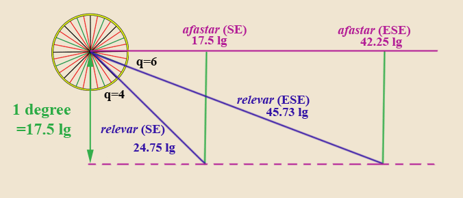 Illustration of the "Regiment of the Leagues" (Portuguese: regimento das léguas), also known as the "Rule to raise or lay a degree", a 16th C. trigonometric table for navigation.